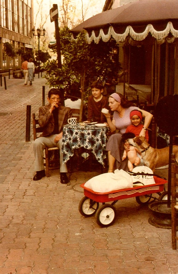 Isabel del Puerto and family in her bistro "El Cuchitril", Zona Rosa, Mexico City.